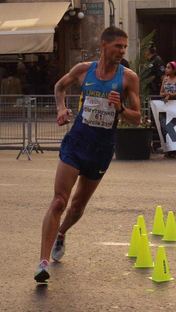 61-Ruslan Dmytrenko (UKR), 15-Veli-Matti Partanen (FIN) y 34-Genadij Kozlovskij (LTU) in the 11th European Cup Race Walking Murcia ESP 17 May 2015